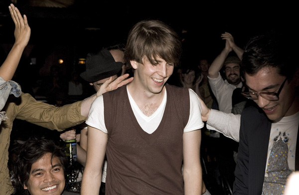 Canadian musician Final Fantasy (Owen Pallett) accepting the Polaris Music Prize 2006